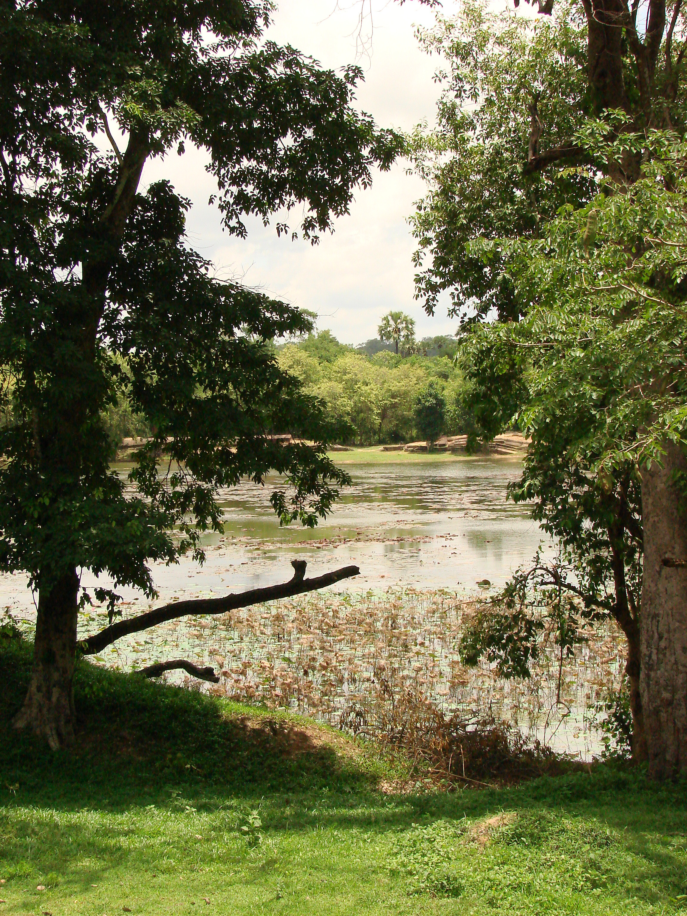 Landscape at Angkor Wat, Cambodia, main temple complex. May 2009.